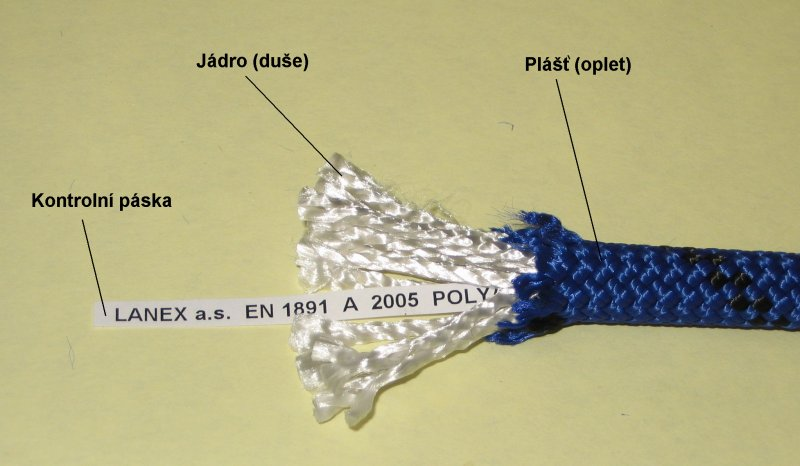 Static rope